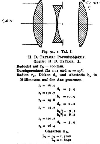 Cooke triplet diagram